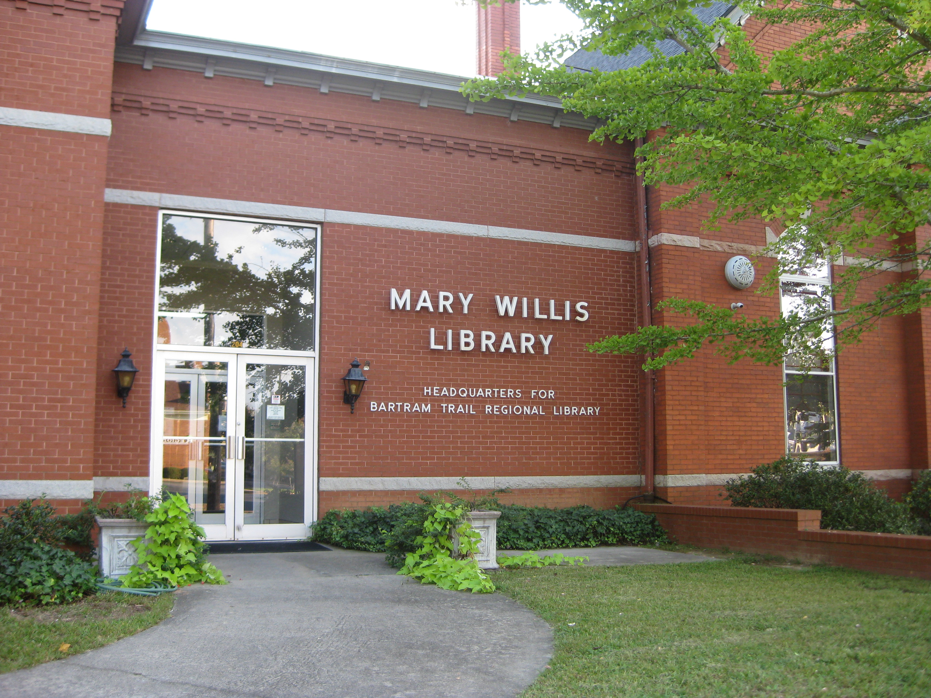 Main entrance to the annex of Mary Willis Library in Washington, Georgia, USA, headquarters for the Bartram Trail Regional Library.